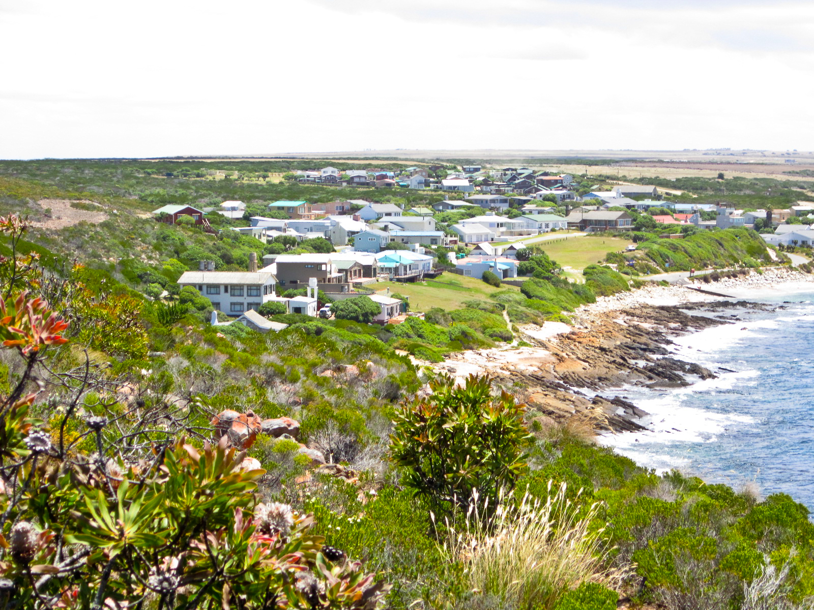 The village of Cape Infanta, near Swellemdam Western Cape